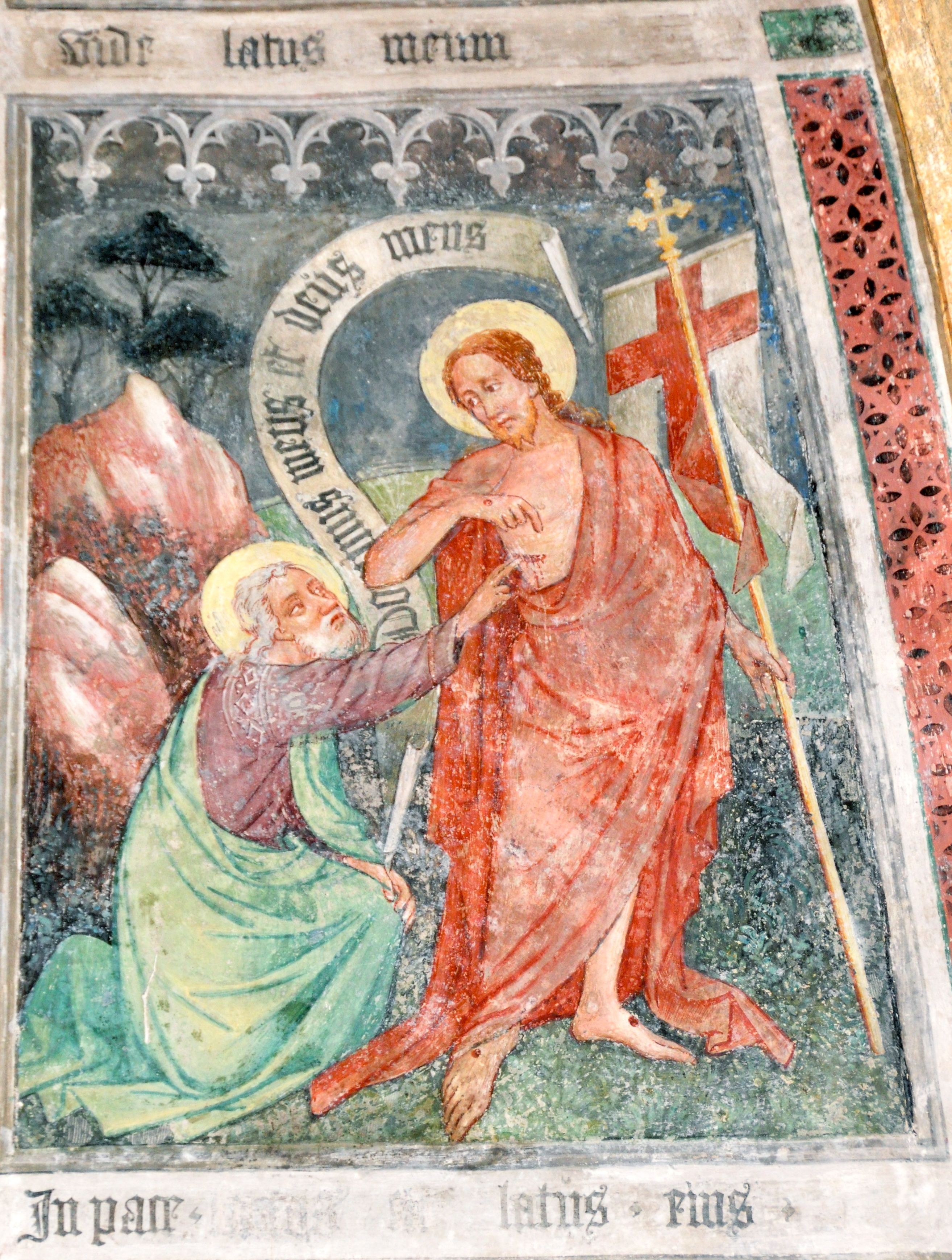 "Christ and doubting Saint Thomas” (fresco by Thomas von Villach in 1527) on the north wall of the parish church Saint Andrew at Thoerl-Maglern-Greuth, municipality Arnoldstein, district Villach Land, Carinthia / Austria / EU